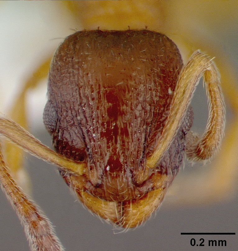 Head view of ant Temnothorax tuberum specimen casent0008636.